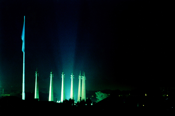 Ordabasy Plaza in Shymkent, view from behind.